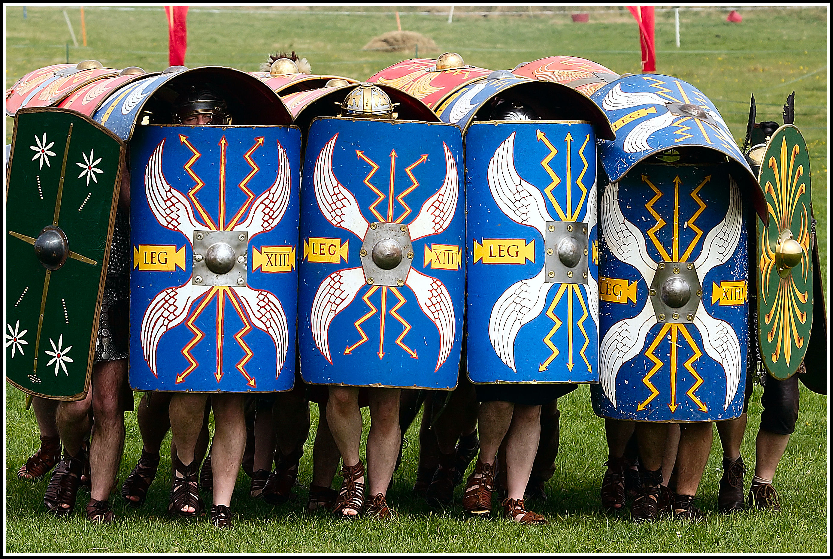 Image taken at the display of Roman Army Tactics Scarborough Castle UK Aug-07